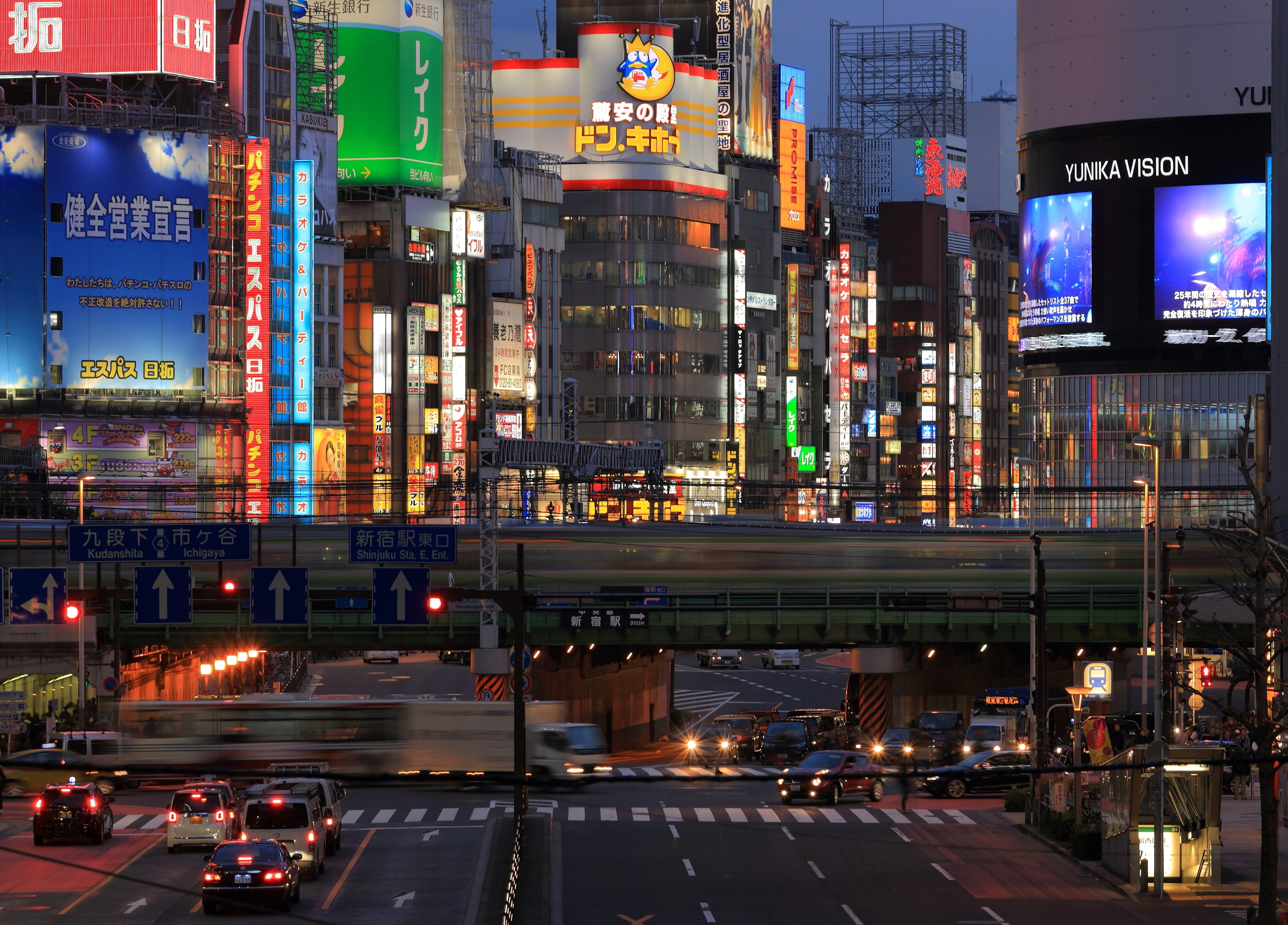 Shinjuku, Tokyo, at night: Traffic on Ōme-kaidō